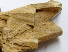 Stibiconite. Image width ~1 cm. Mineral collection of Bringham Young University Department of Geology, Provo, Utah. Photograph by Andrew Silver. BYU index 4-8101, Sb_3O_6(OH).